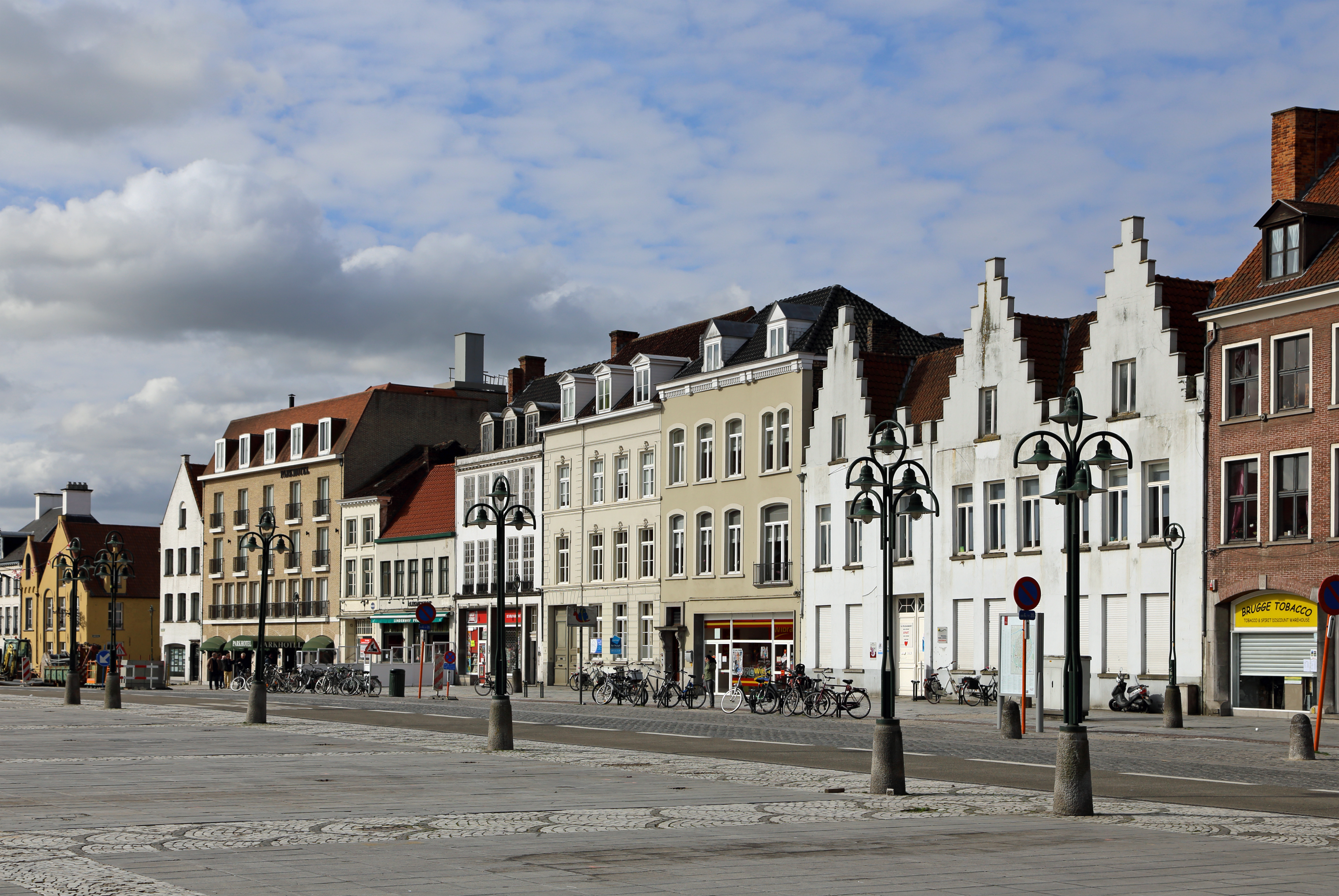 Bruges (Belgium): Vrijdagmarkt